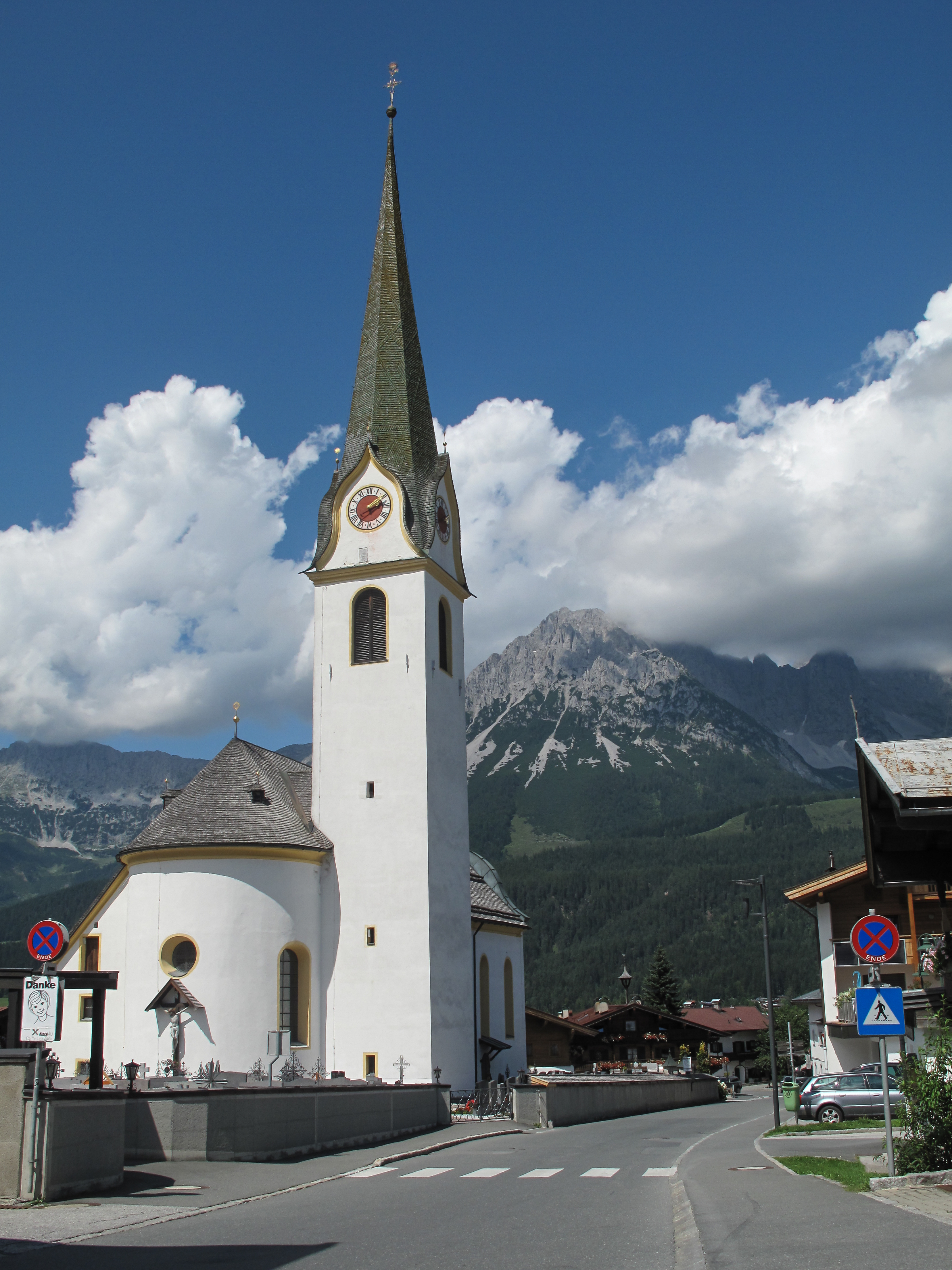 Ellmau, church: Pfarrkirche Sankt Michael